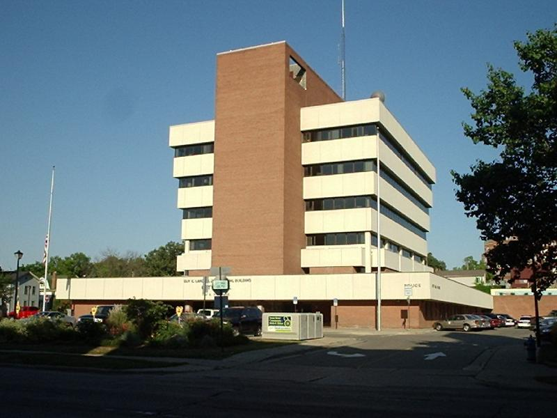 Guy C. Larcom, Jr. Municipal Building — Modernist architecture in Ann Arbor, Michigan. Housing the City Hall and central Police Station Ann Arbor.